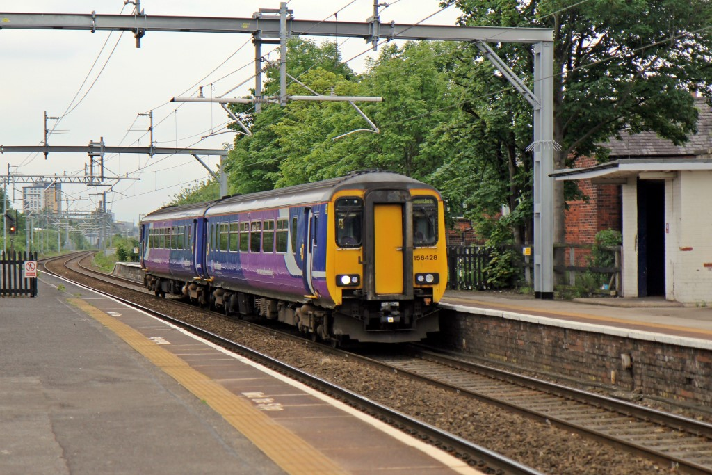 Northern Rail Class 156, 156428, Patricroft railway station